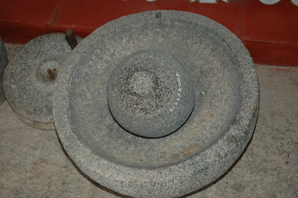 Stone grinder for grains. (Wet, dry grinder). Manual stone grinders used in India, North Africa and in the Middle East. Two stones, black and heavy, are measured and cut by the hands of a professional, then styled and trimmed. The top movable part is in the shape of a thick rod (larger object on the right side is a wet grinder) or a flat circular disc (smaller object on the left side is a dry grinder). It has an attached wooden handle, to be gripped by the grinding person's hands. The bottom fixed part accommodates the top movable part. In the dry grinder, in the bottom fixed stone, stands a solid wooden column (called the heart), that works as a hub for rotation of the movable top.